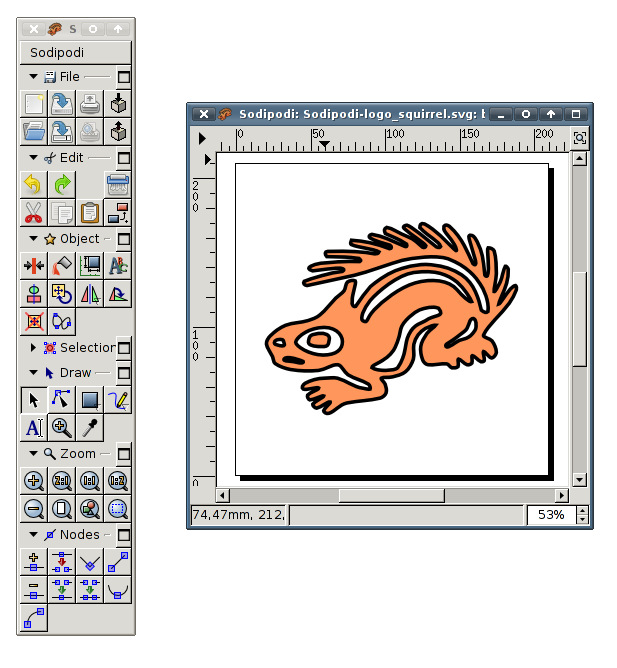 Sodipodi 0.34 from Debian GNU/Linux 3.1 “sarge” running on Debian GNU/Linux “lenny/sid” with Xfwm 4 “Therapy” titlebar theme and Tango icon theme.